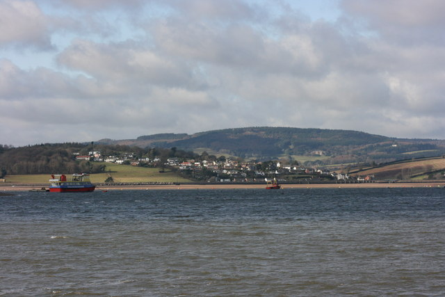 Cockwood and the Haldon Hills. Taken from on board the MV My Queen on an RSPB organised cruise. The spread of houses is the village of Cockwood, and the entrance to its' harbour is on the right but hard to see here, but see 1179634. The hill behind is part of the Haldon Hills, and is Obelisk Plantation above Mamhead Park; it is managed by Forest Enterprise who have made an easy access trail along some of the forest roads.